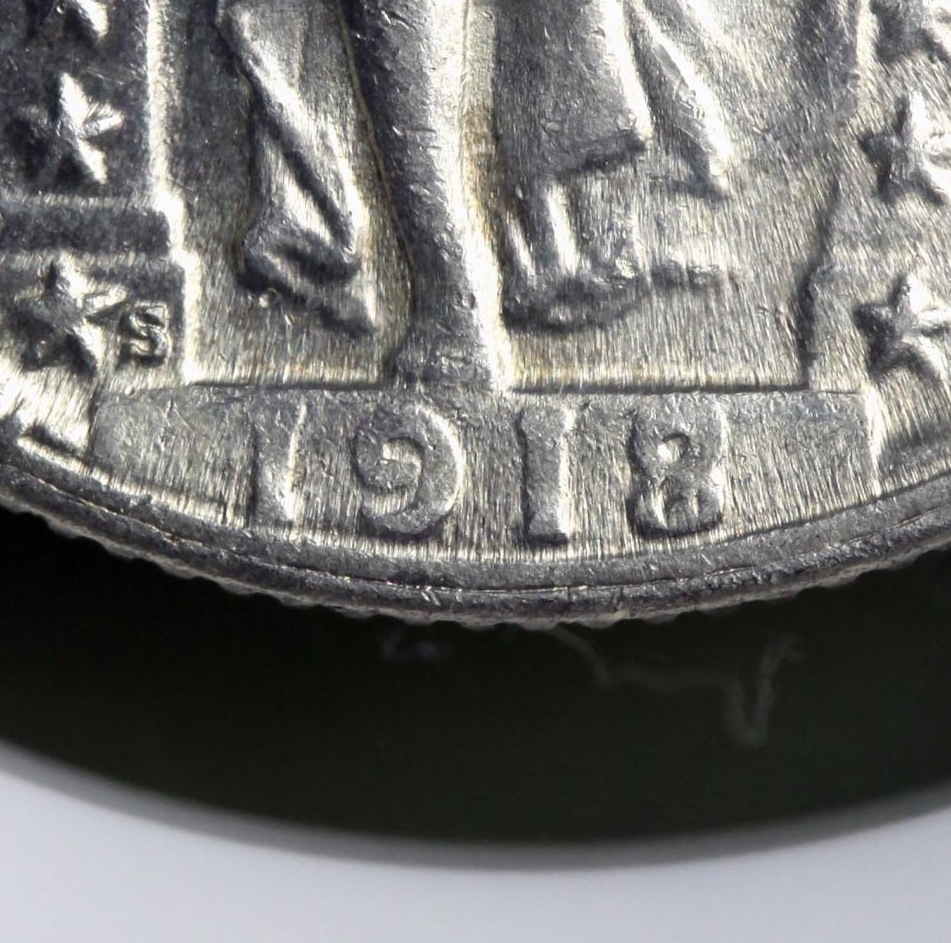 Obverse of a 1918/7-S Standing Liberty quarter. Detail shows the overdate and the mint mark.